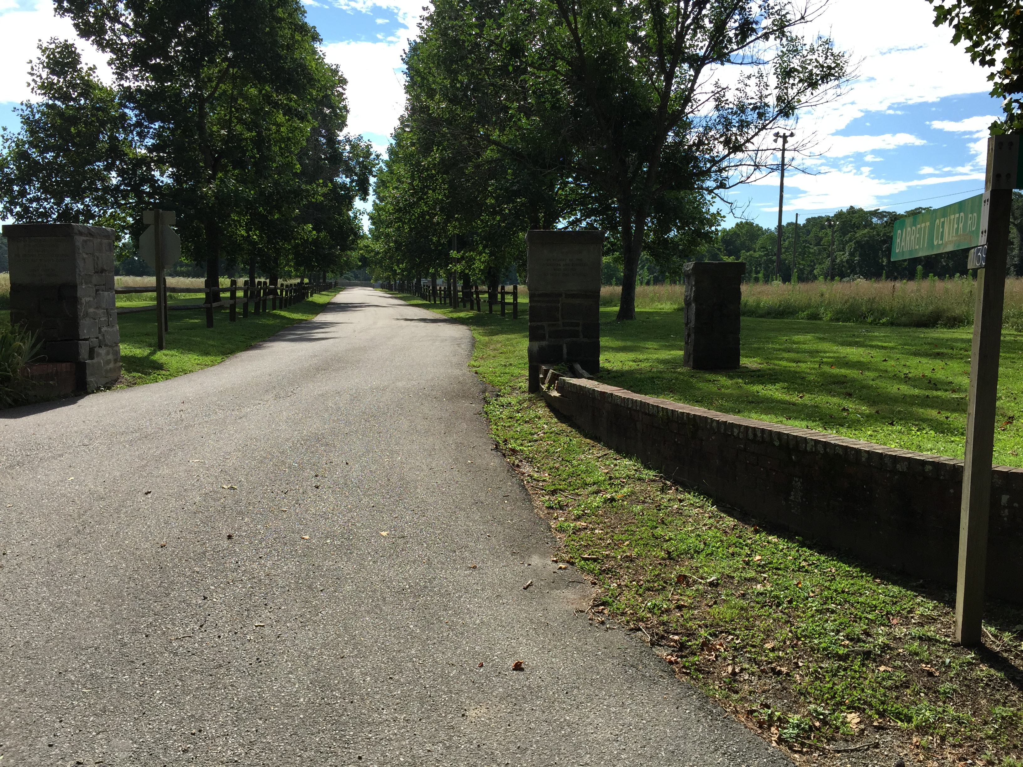 View east along Virginia State Route 325 (Barret Center Road) at Georgetown Road (Virginia State Secondary Route 651) in Hanover County, Virginia